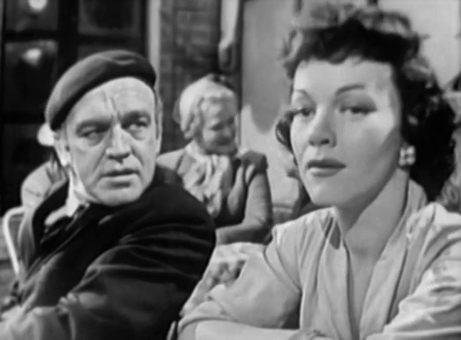 Herbert Berghof & Maria Riva in the U.S. TV series Suspense, episode Death Drum (cropped screenshot)